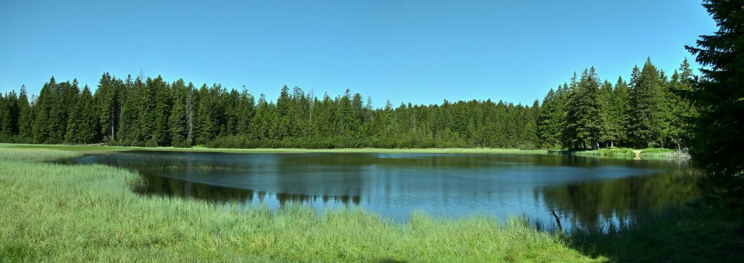 Črno jezero on Pohorje